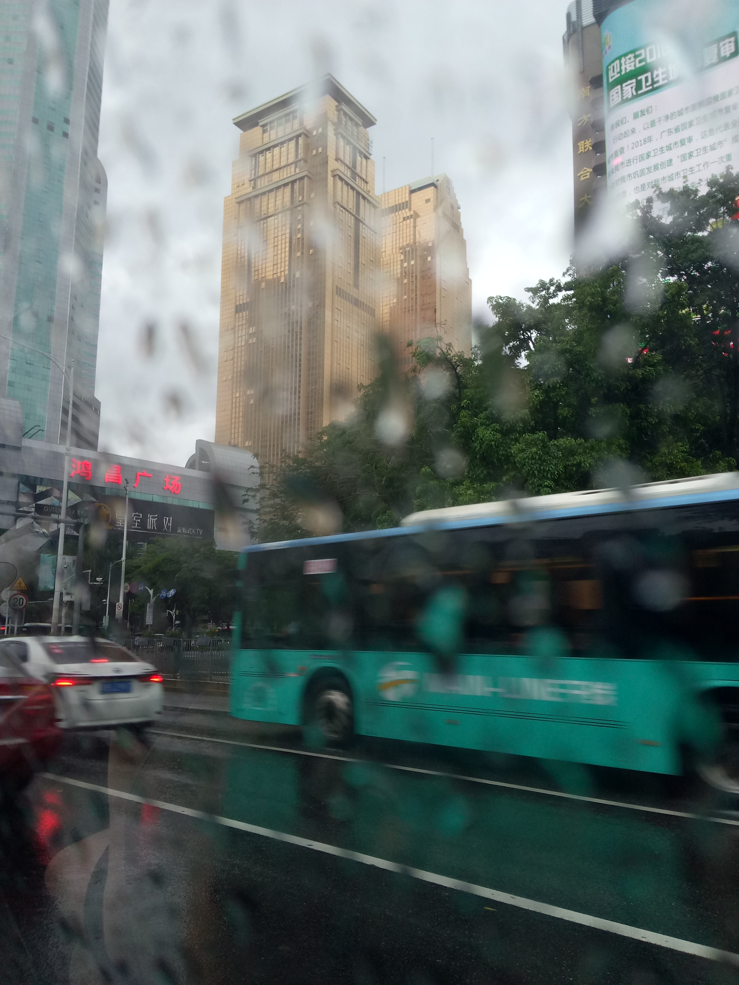 Picture taken in my 2006 Lexus RX350 as I was driving through Shenzhen